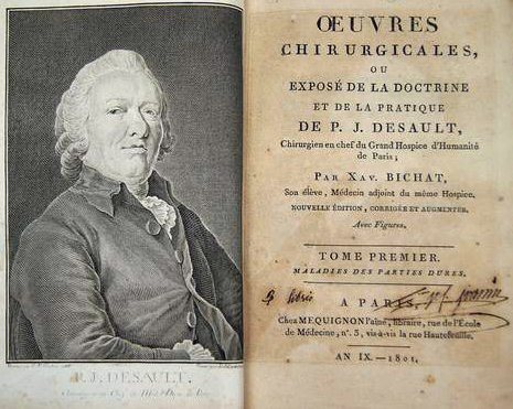 book portrait and title page